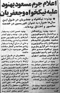 Masoud Behnoud's cirme declaration against Mohammad Jafarian and Parviz Nikkhad before they get executed by the Iranian Islamic Regime after 1979 revolution.